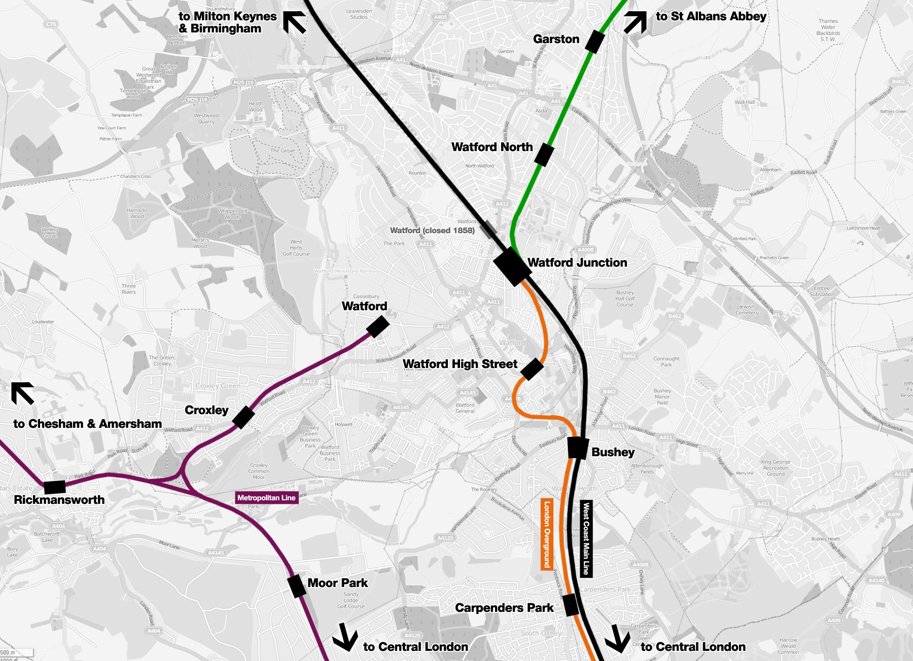 Map of Watford, Hertfordshire, UK, showing the railway lines and stations around the town centre. This map may be incomplete, and may contain errors. Don't rely solely on it for navigation.